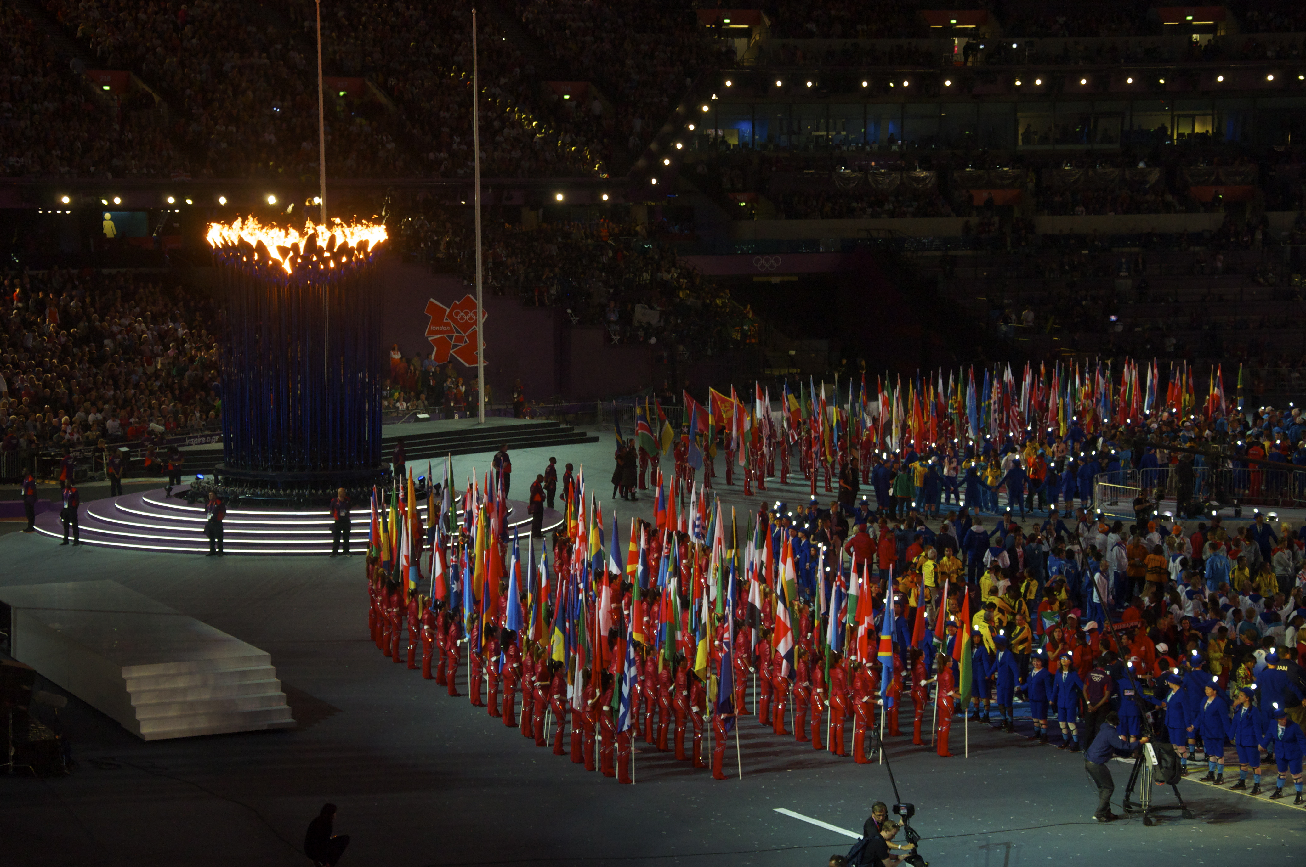 flags being marched around the stadium.